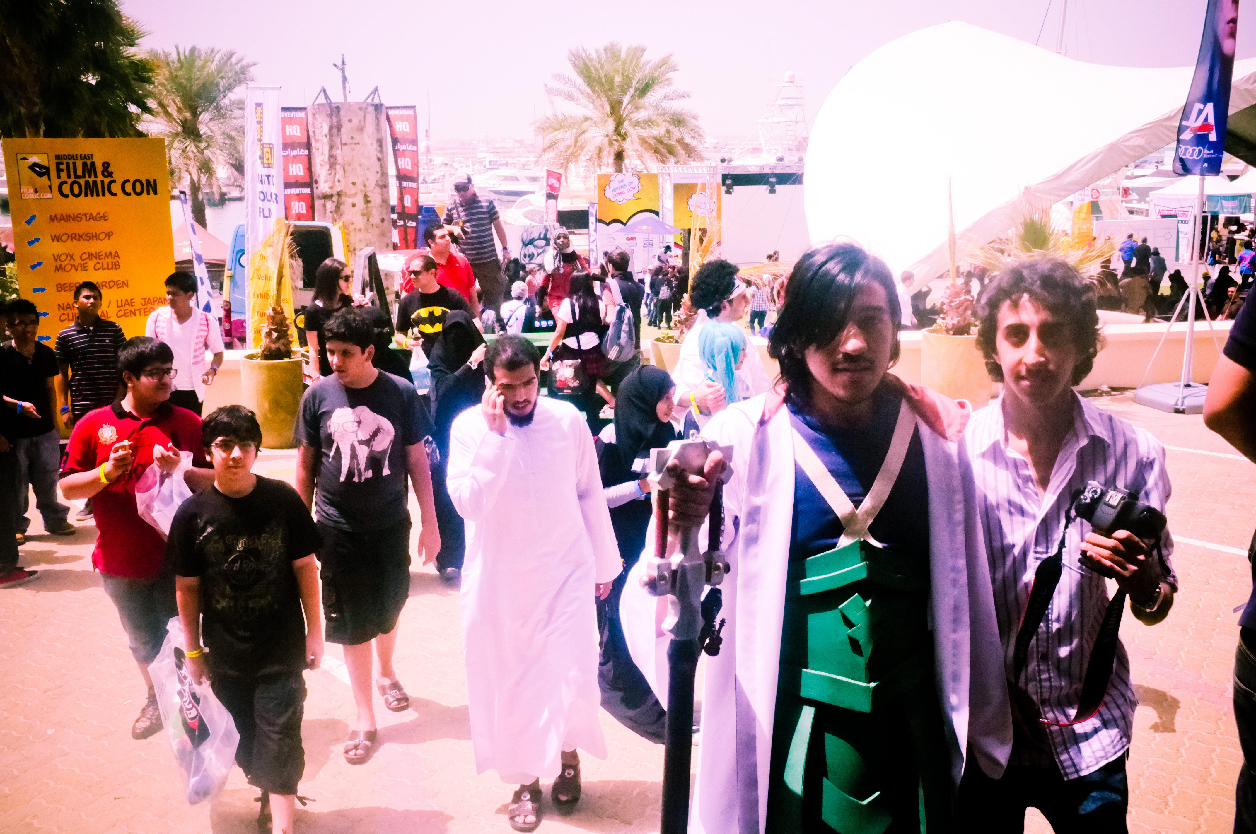 Middle East Film and Comic Con 2012.